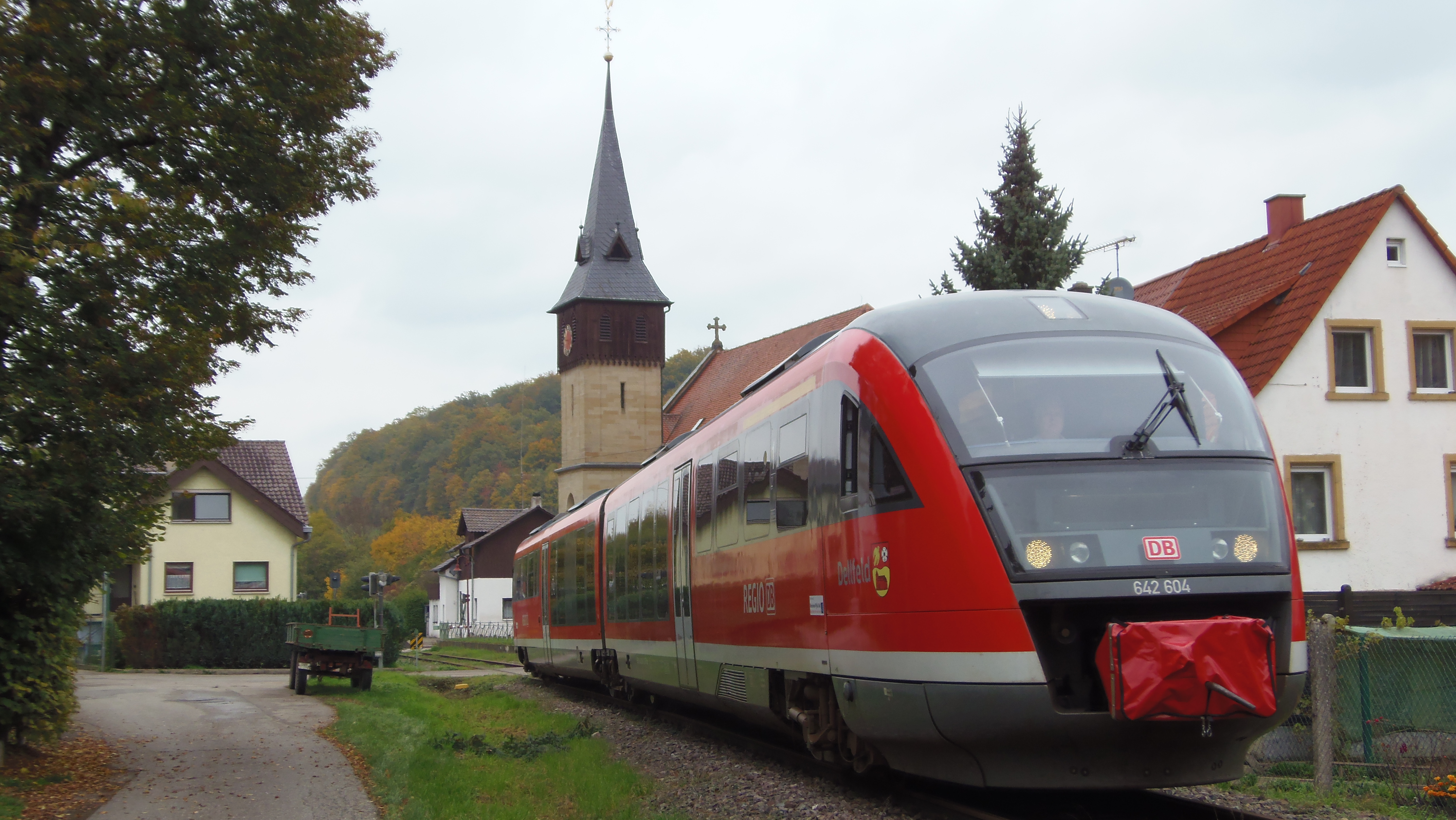 Class 642 (Desiro) in Untergimpern, 22nd October 2015